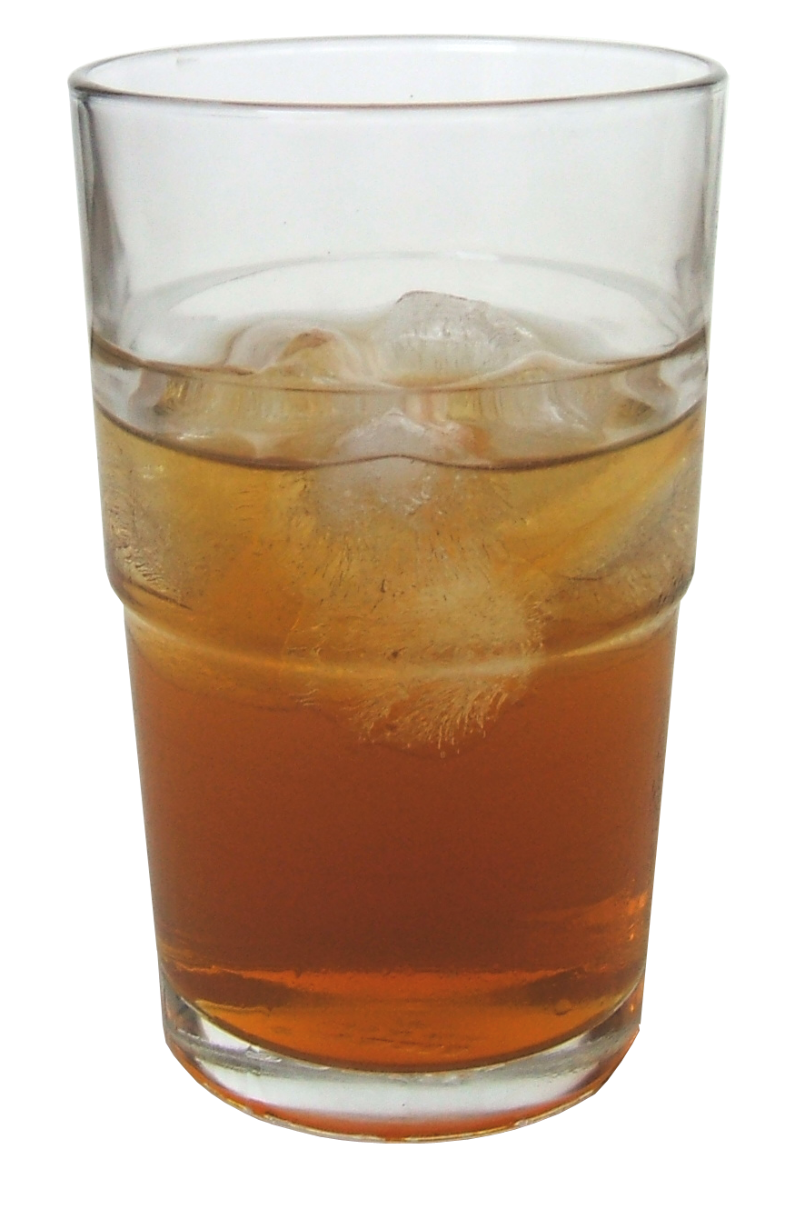 A glass of kombucha made from black tea, with ice